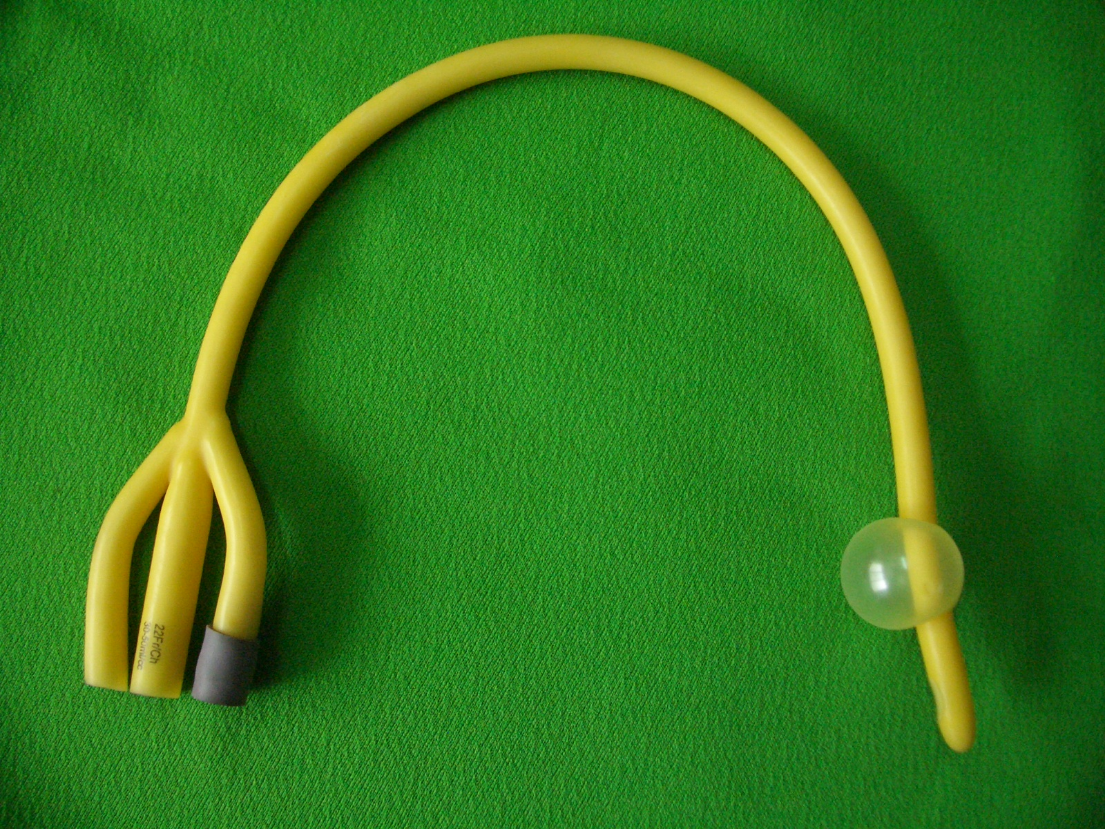 The type of urinary catheters.